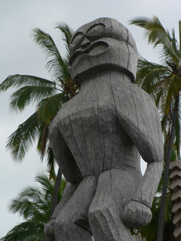 Ki'i religious statue at the entrance to Hale o Keawe heiau, Pu'uhonua o Hōnaunau National Historical Park Hawai'i Island